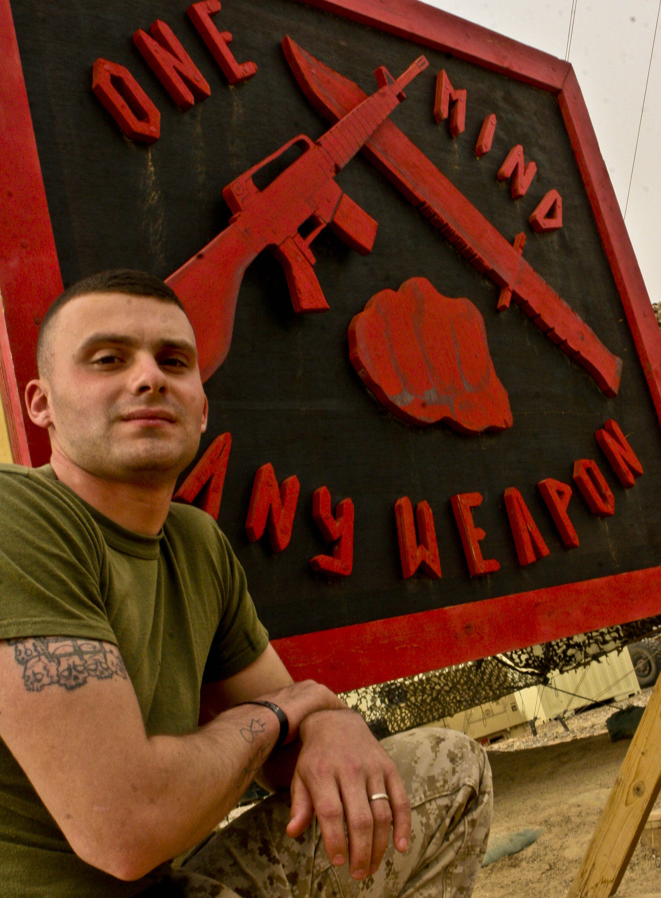 Cpl. Alfred J. Joseph, a tactical data network specialist with Communications Platoon, Headquarters and Service Company, Combat Logistics Battalion 3, 1st Marine Logistics Group (Forward), is shown outside of the Marine Corps Martial Arts Program pit aboard Camp Dwyer, Afghanistan, Feb. 21, where he uses his skills to train fellow Marines. Joseph says his motivation for helping others comes from a strong and supporting family including his wife and daughter.